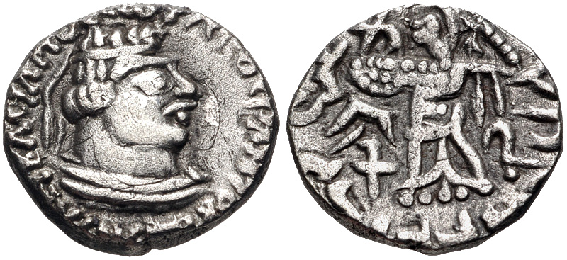 Rajuvula coin with Greek legend